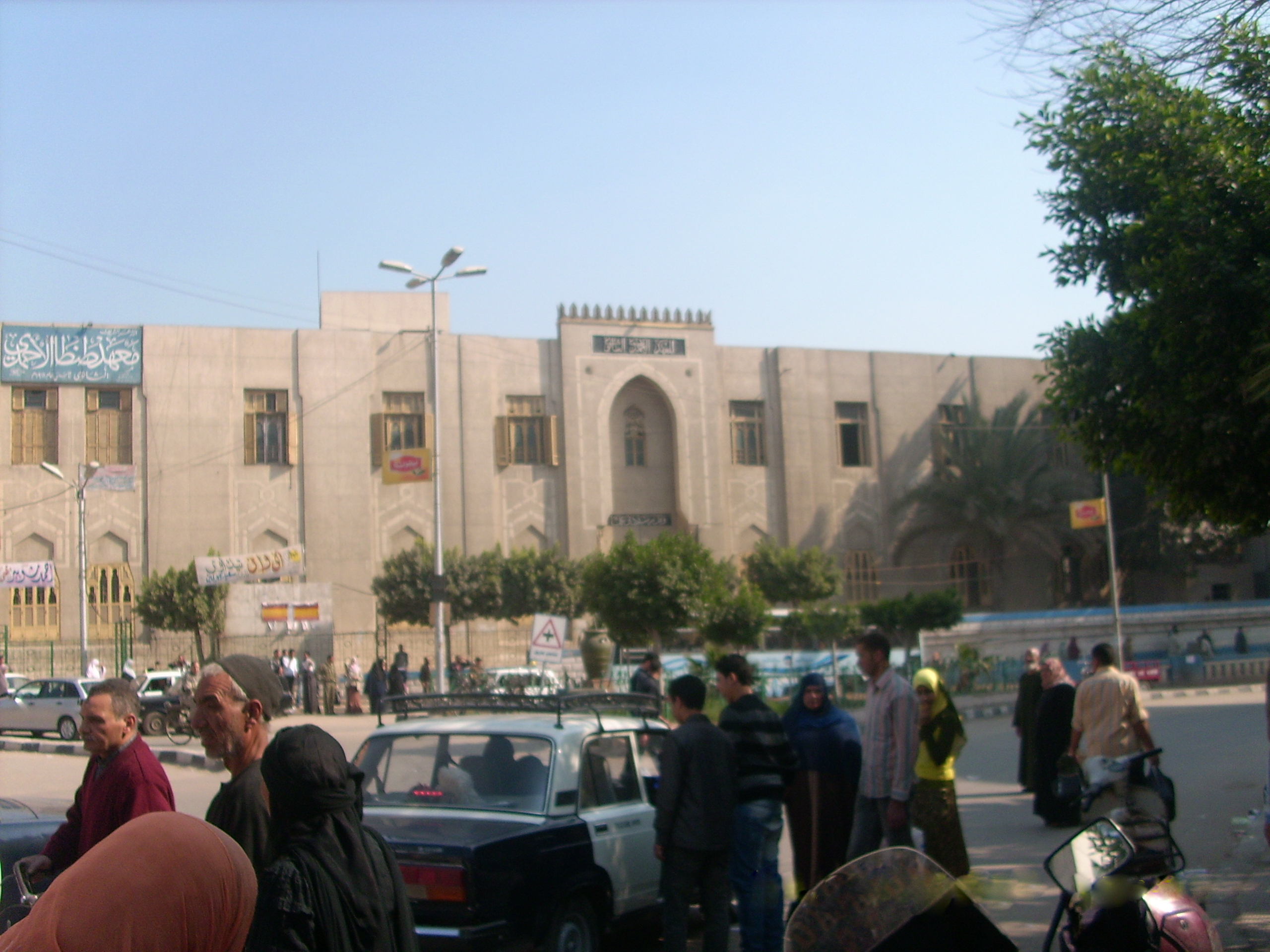 Al-Ahmadi Azhar Institute -Tanta - Egypt